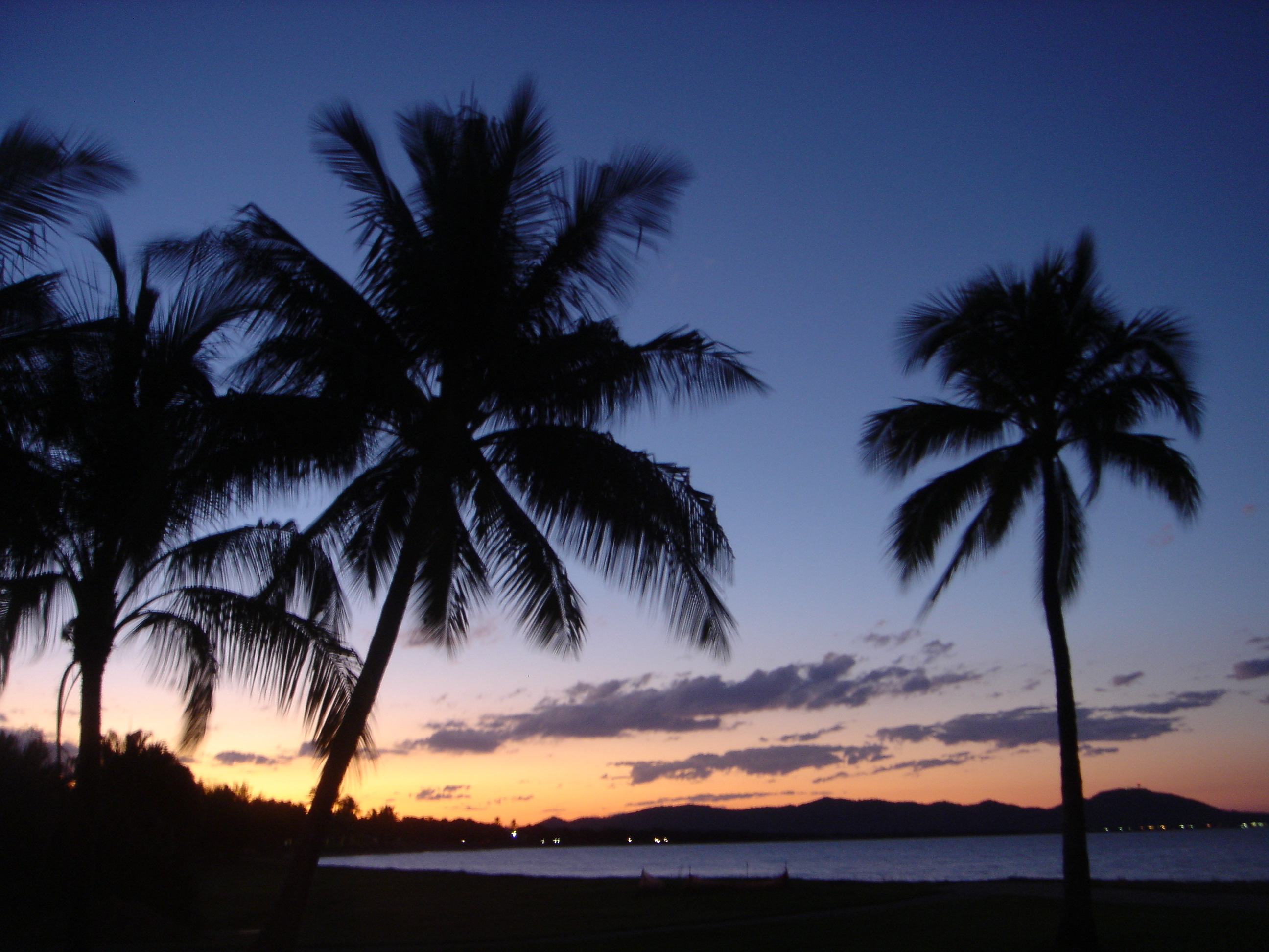 Dusk at Rowes Bay, looking northwards to Cape Pallarenda. August 2007.